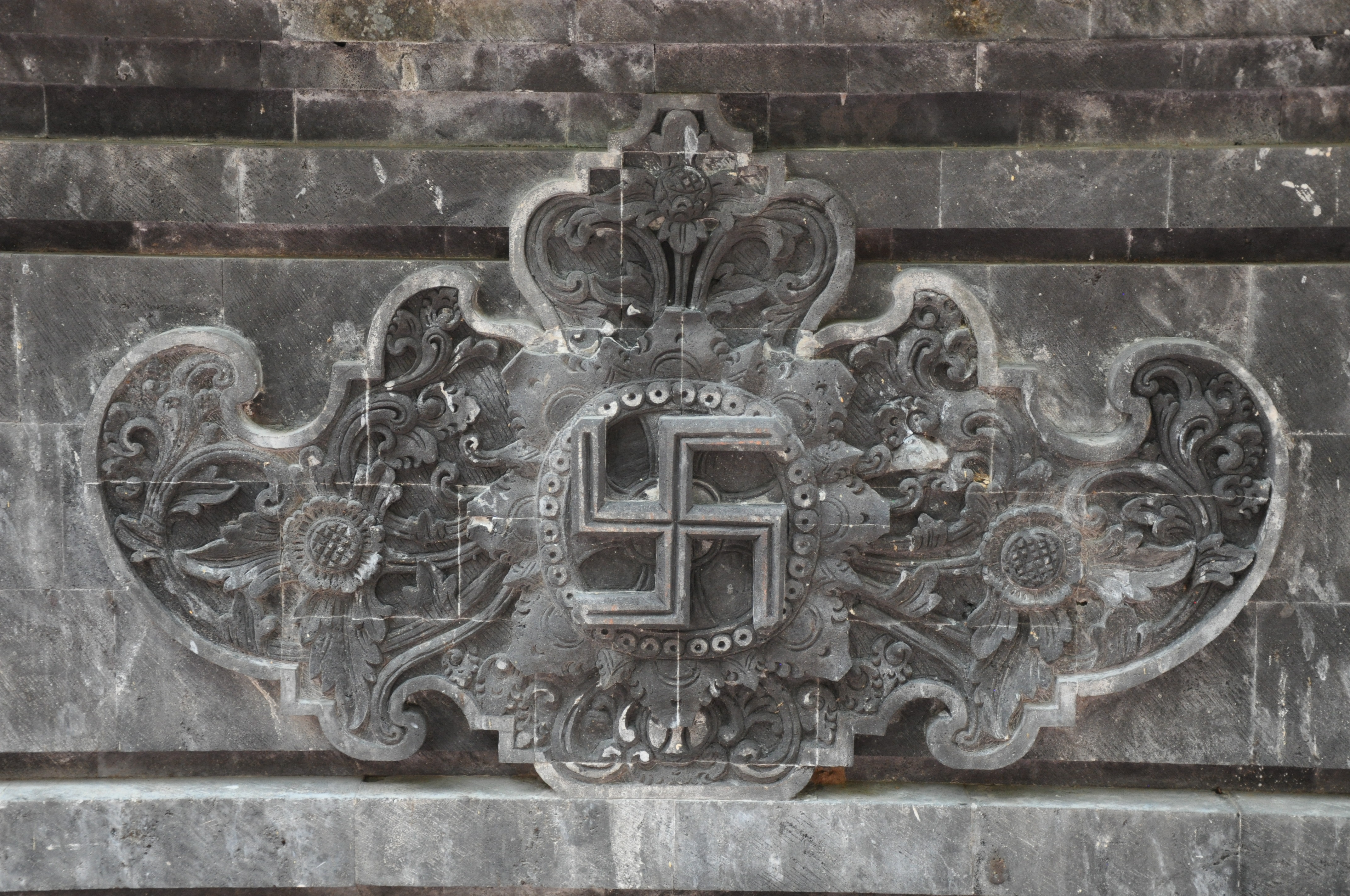 Clockwise swastika carved in stone in Bali Indonesia 2013